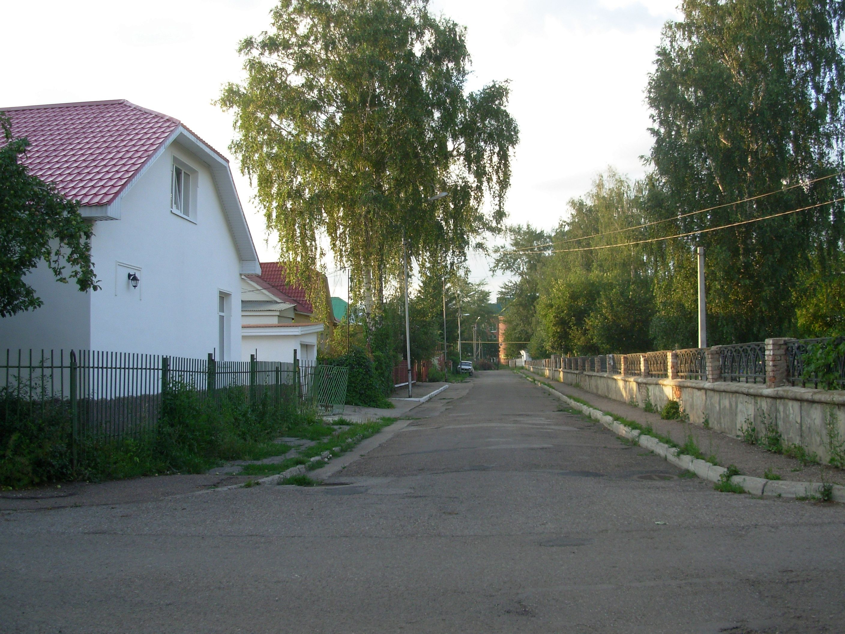 street